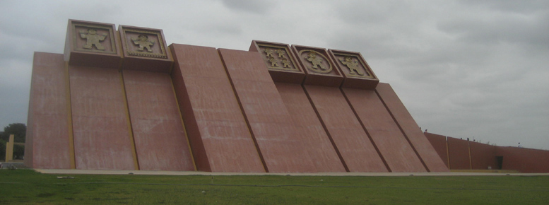 The museum "Tumbas Reales de Sipán", located in Lambayeque, Peru.